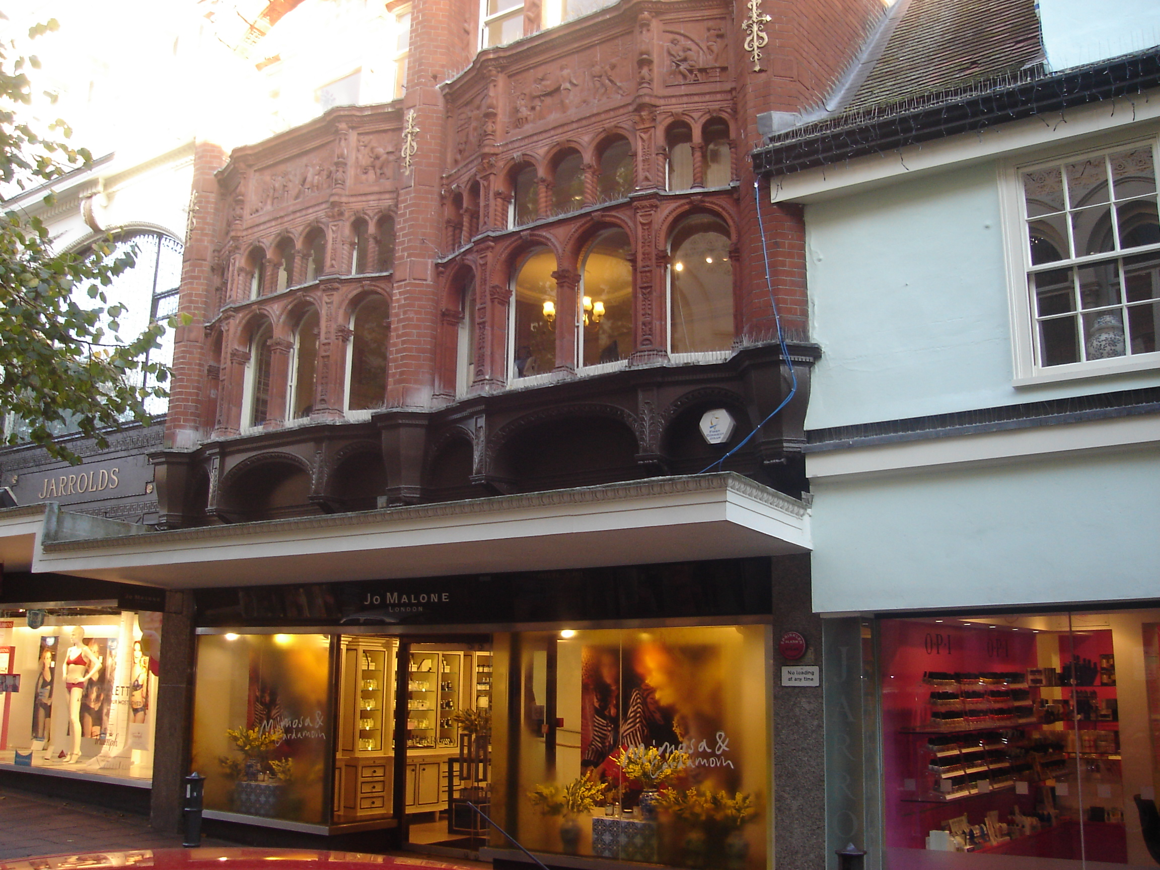 The Jo Malone outlet is incorporated into the Jarrolds store in Norwich. Eminent local architect George Skipper's offices can been above the store. The terracotta panels feature architects at work.